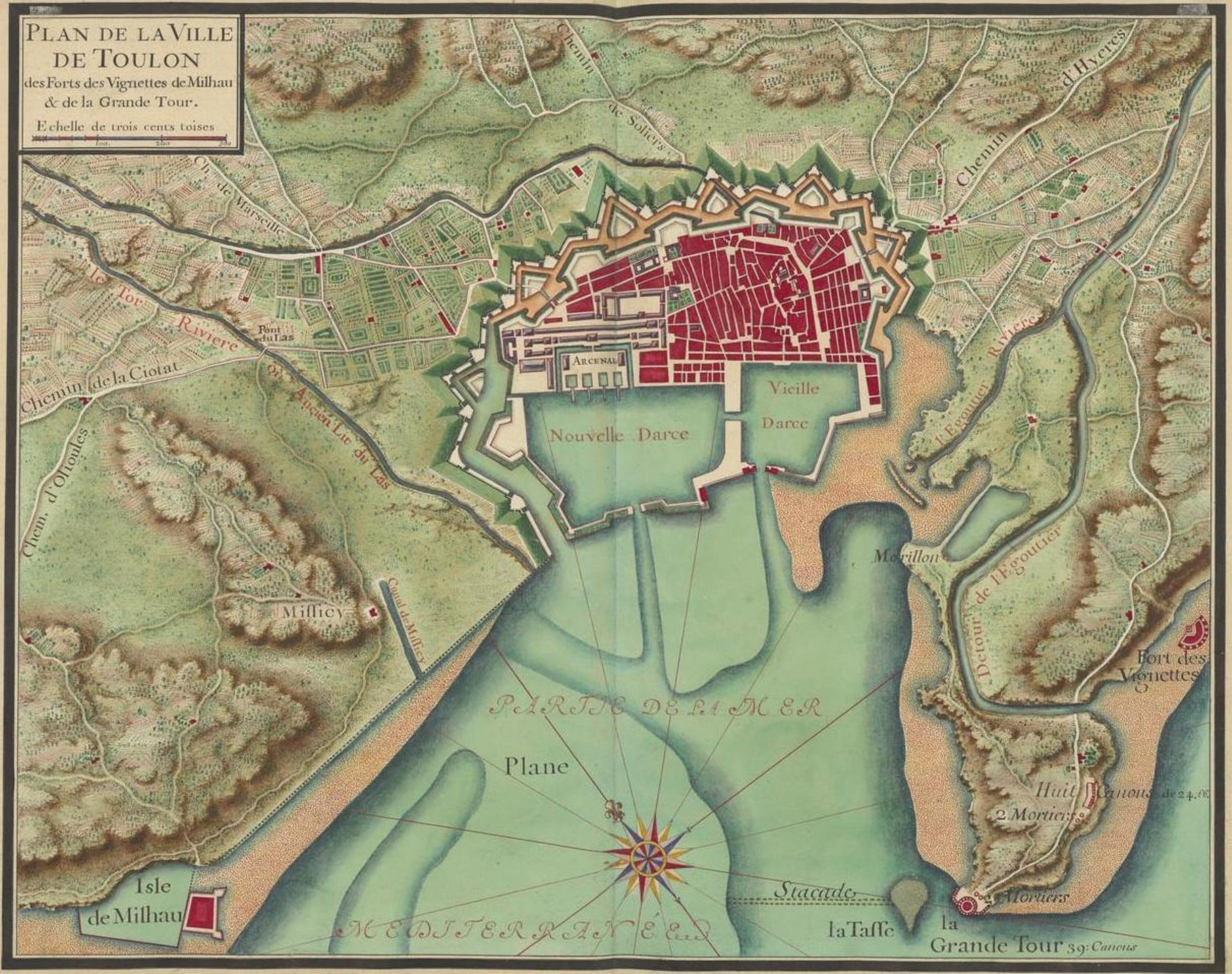 Plan of the city of Toulon, its docks, its arsenal and its surroundings in 1700.